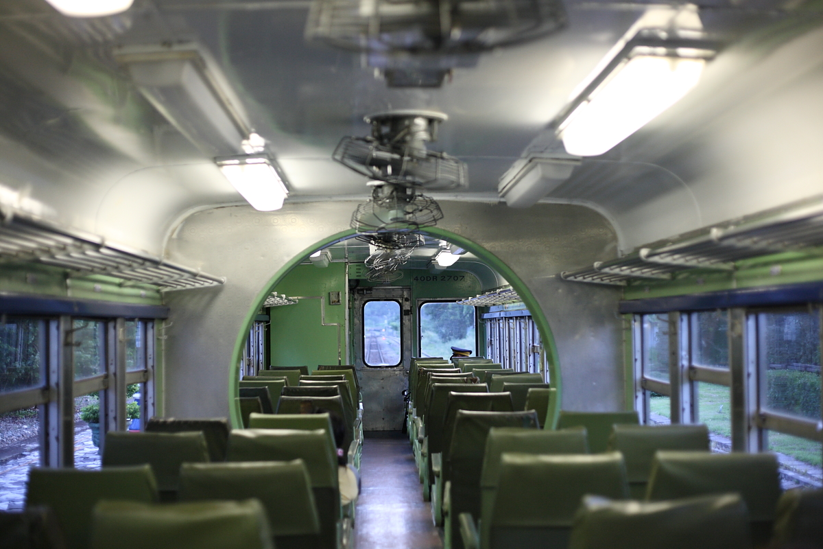 The interior of diesel railcar, type DR2700, of Taiwan Railway Administration.